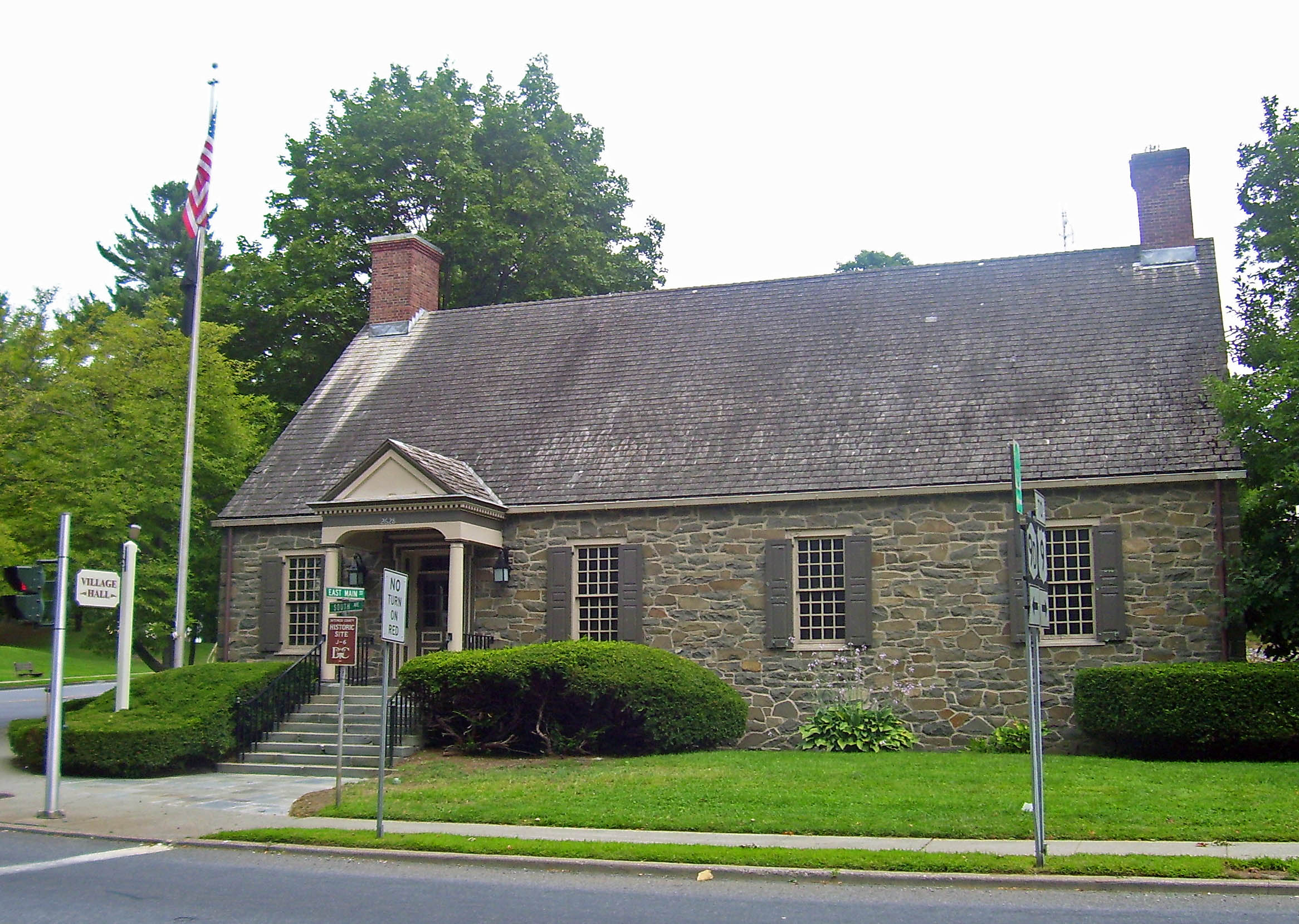 The Wappingers Falls Village Hall — in Wappingers Falls, Dutchess County, New York. 1940 stone Colonial Revival (former) post office building by the WPA—Works Progress Administration. A contributing property of the Wappingers Falls Historic District, and on the National Register of Historic Places in Dutchess County, New York.